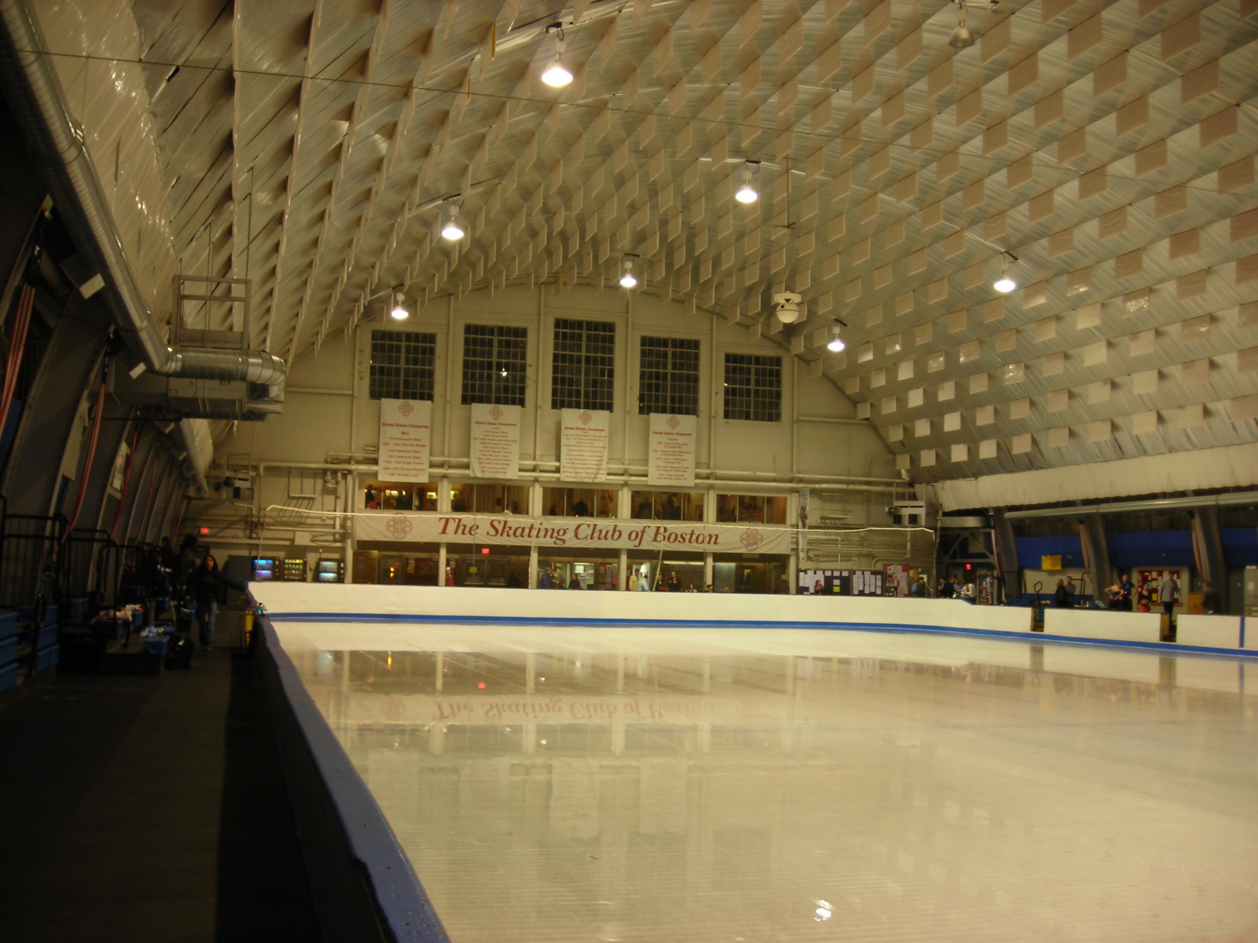 The Skating Club of Boston's rink in Brighton, Massachusetts.